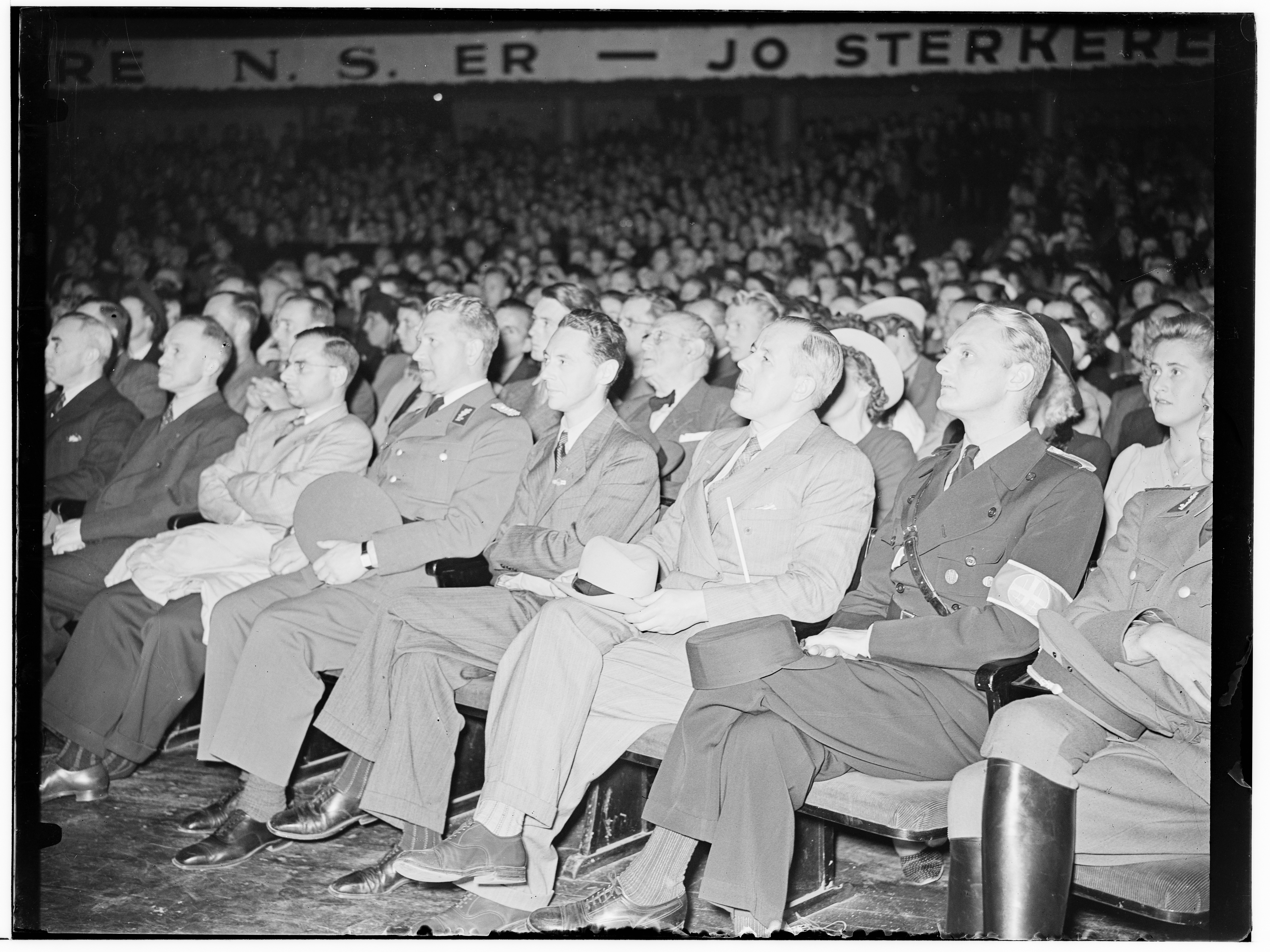 Rally meeting for the Norwegian fascist party Nasjonal Samling (National Union) in Colosseum cinema in Oslo 1941-09-05 (not 1944!). Speech given by party leader Vidkun Quisling.